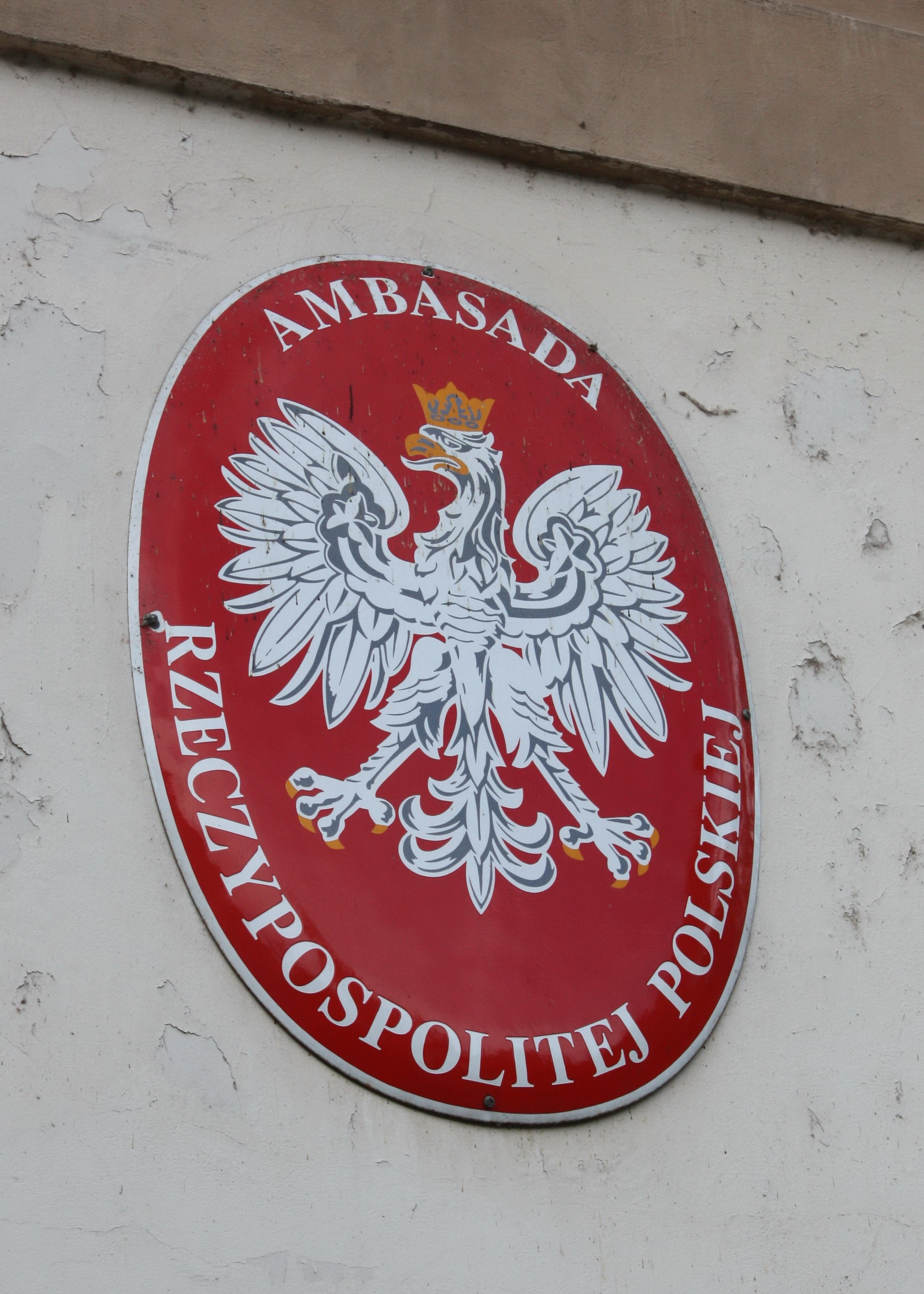 Coat of arms on Polish Embassy in Prague.